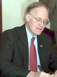 Cropped version of DouglasEEOC.jpg